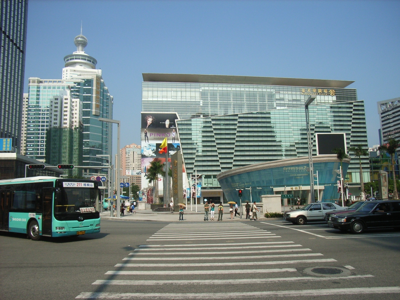 深圳地鐵 沿線各站風景Shenzhen, China (Author is SAMZ).